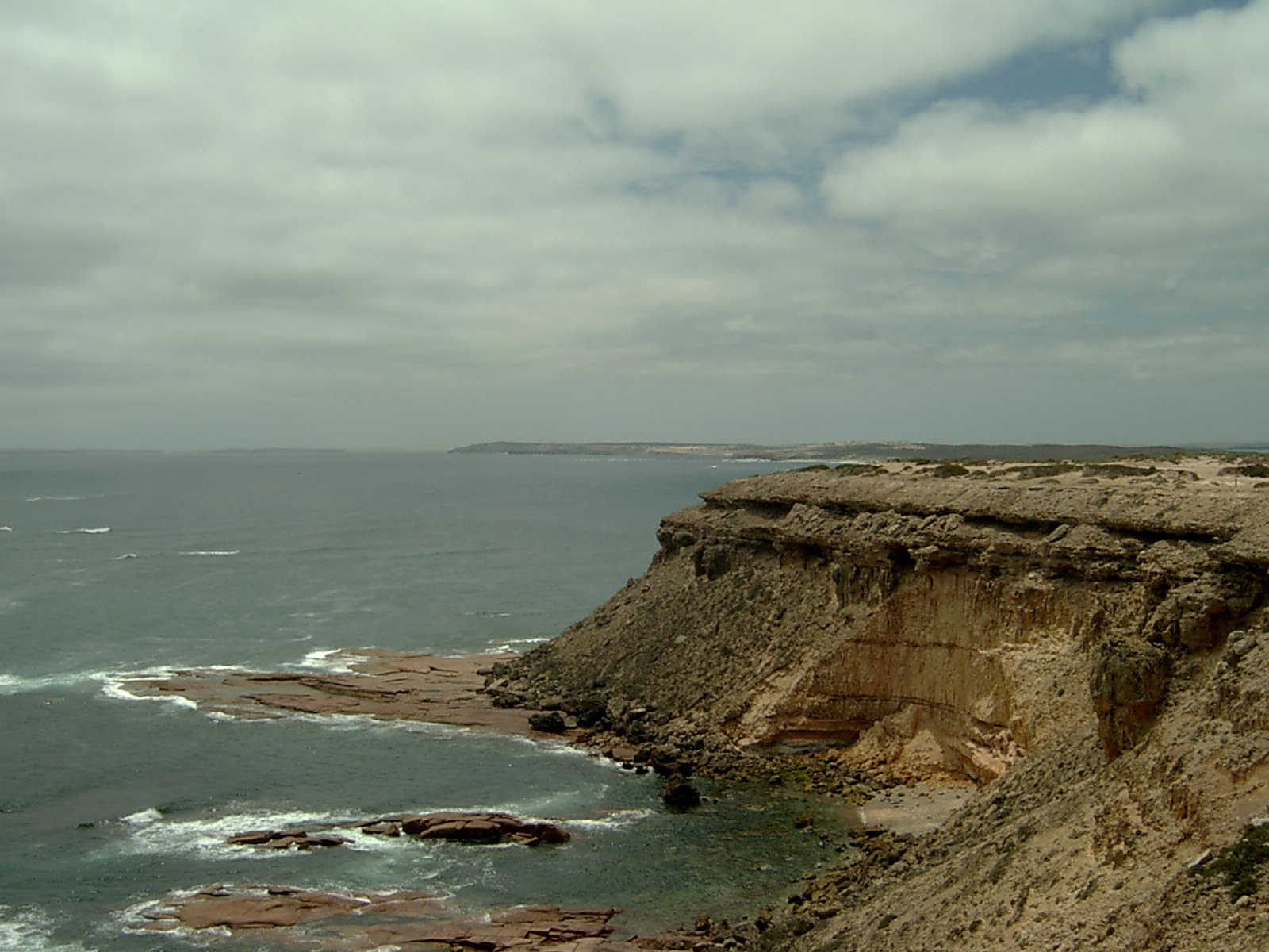 January 2007.